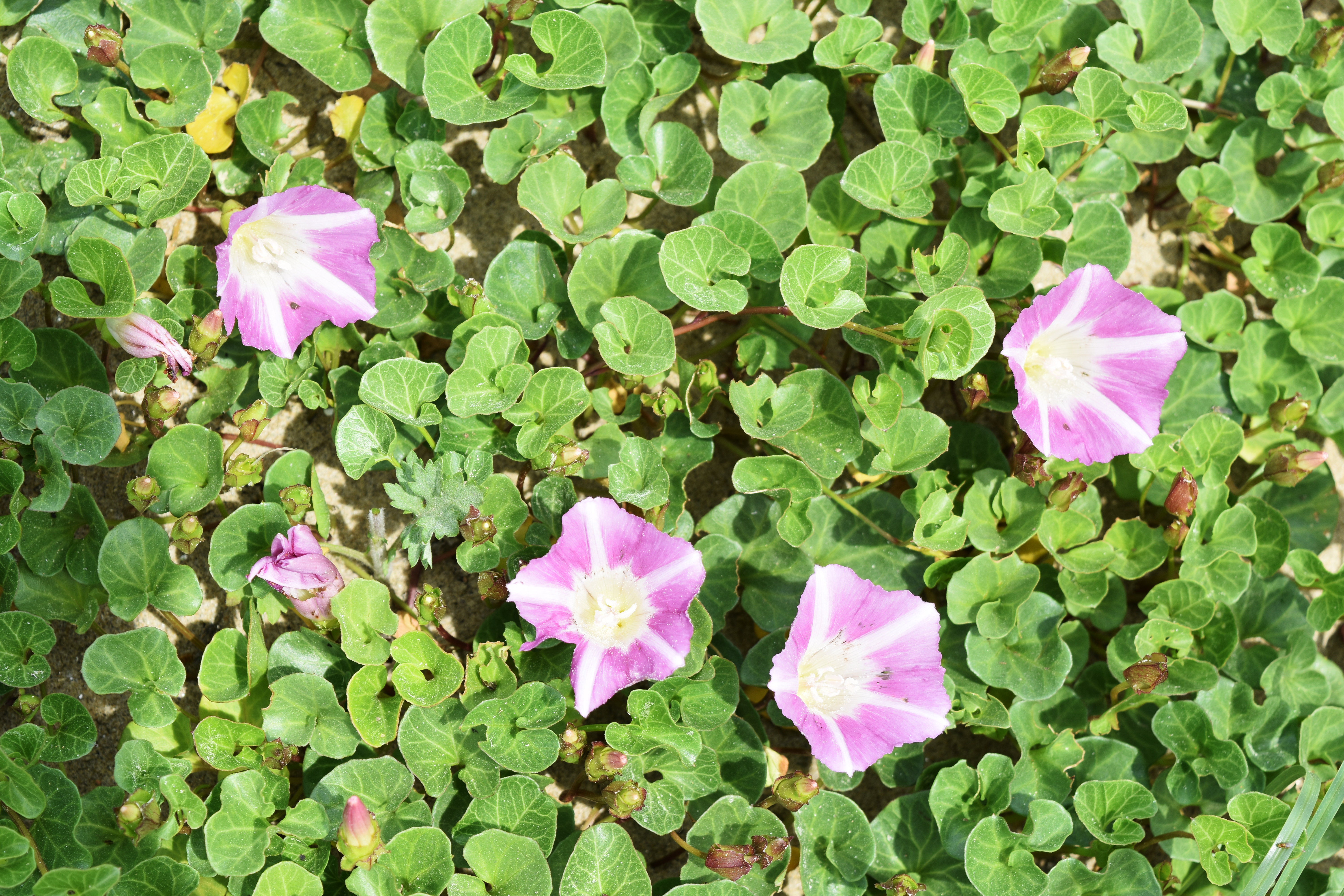 Calystegia soldanella to take photo at 2017-05-20 at Taean, South Korea